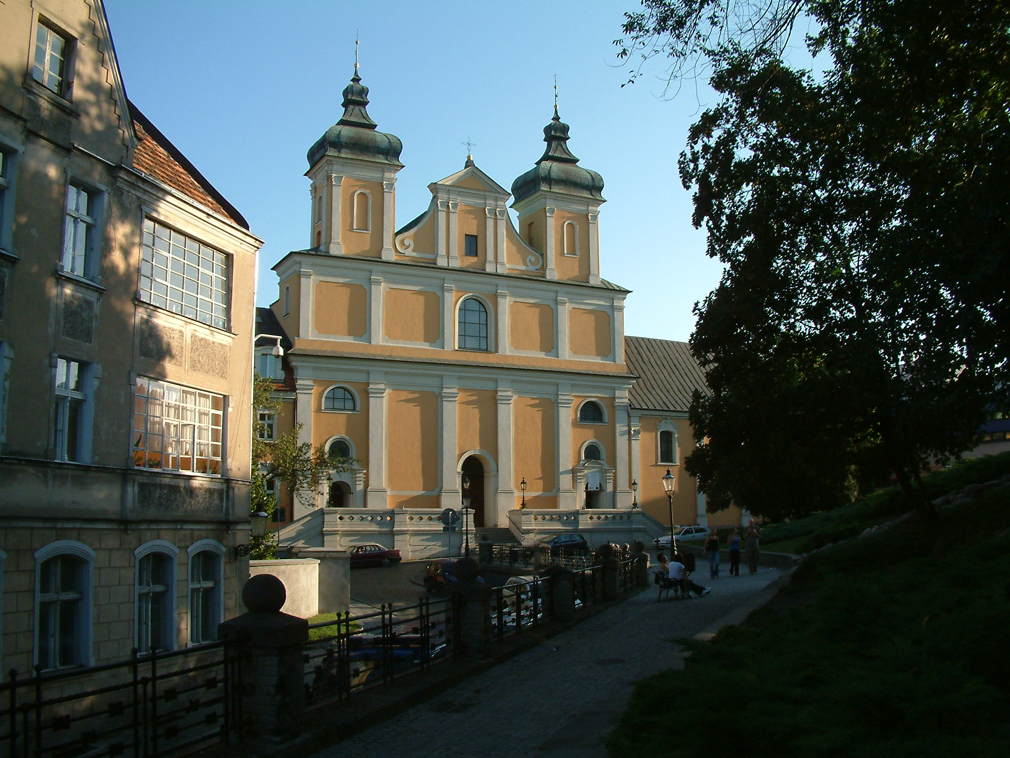 Church of St. Anthony and monastery of Conventual Franciscans on Przemysł Hill, Poznań